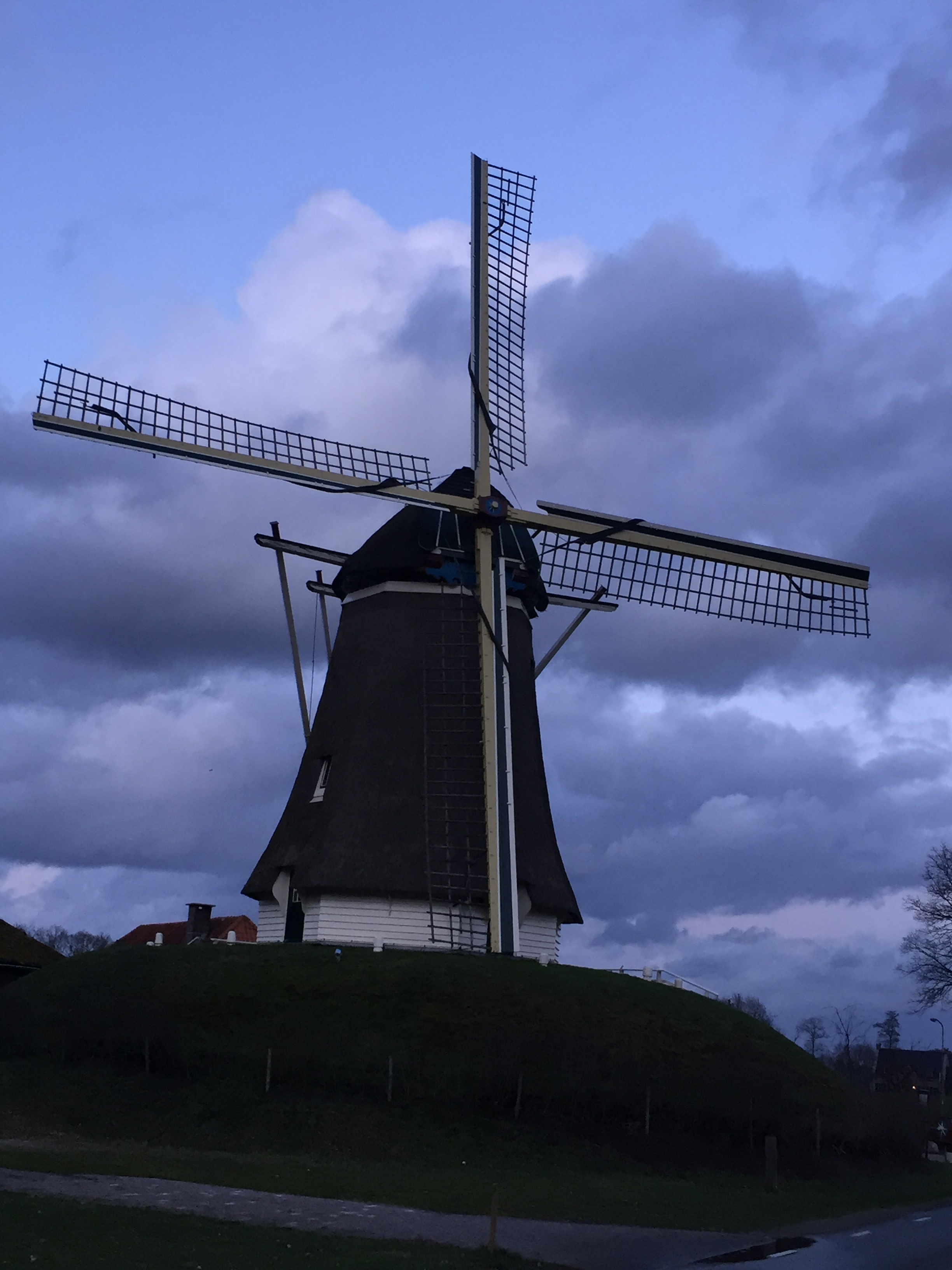 Windmill in Nunspeet in 2019